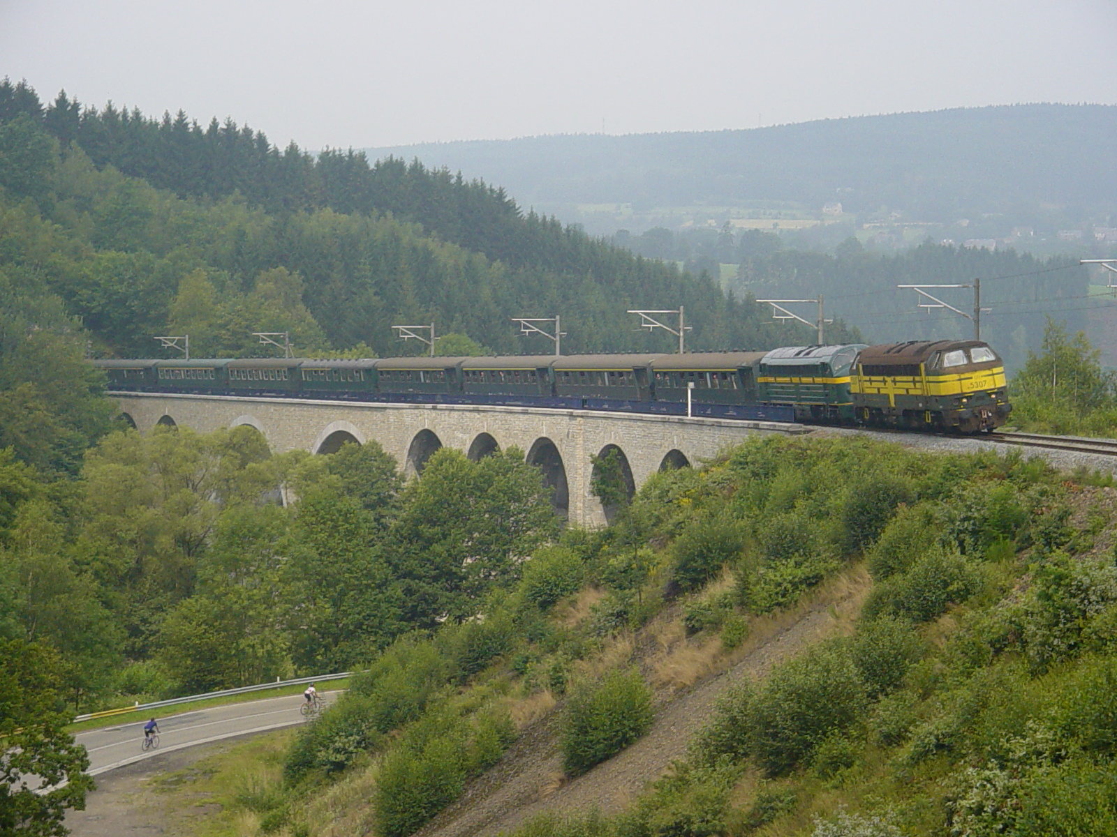 Railroad bridge in Roanne-Coo, Wallonia, Belgium, on line 42 Rivage - Gouvy. The bridge is 186 m long, 23 m high and was opened in 1885.[1] The train is headed by diesel locomotives SNCB/NMBS 5307 & 202.020 (CFL 1602) and was organized as a part of Vennbahn tour for railfans.